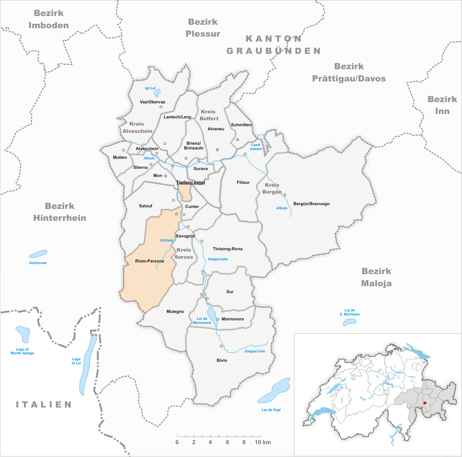 Municipality Riom-Parsonz